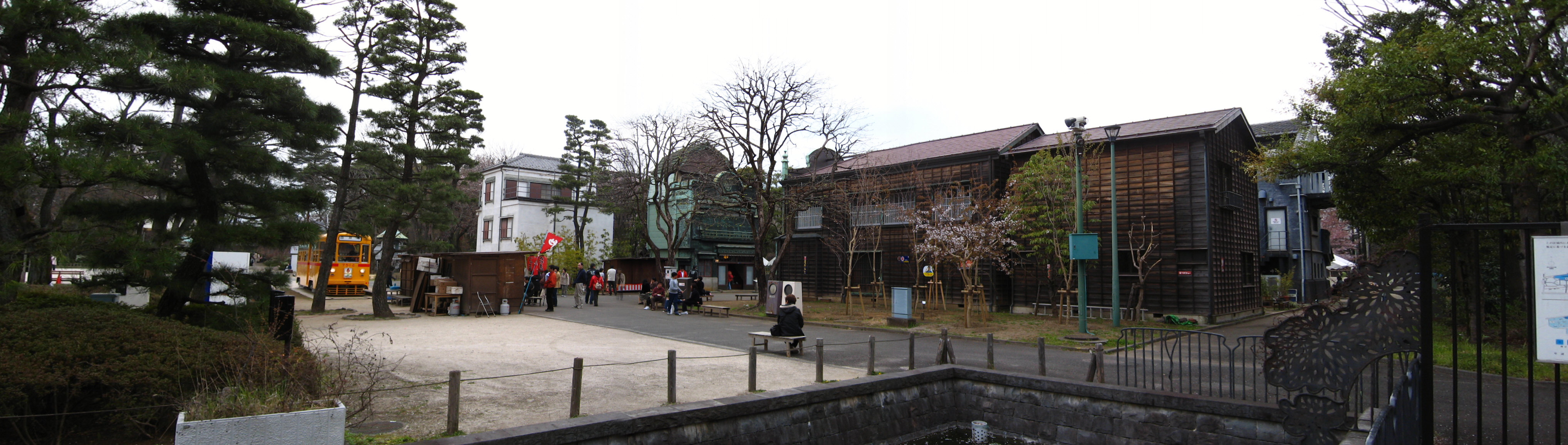 Edo-Tokyo Tatemonoen.